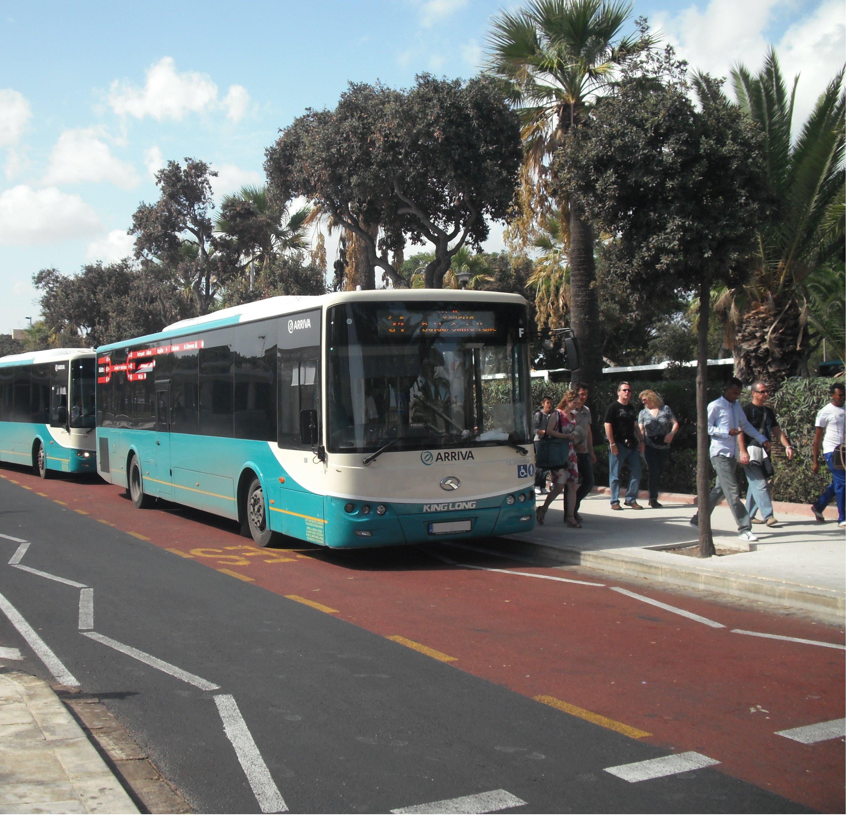 King Long XMQ6127J at the City Gate Terminus in Valletta making a lunch stop.